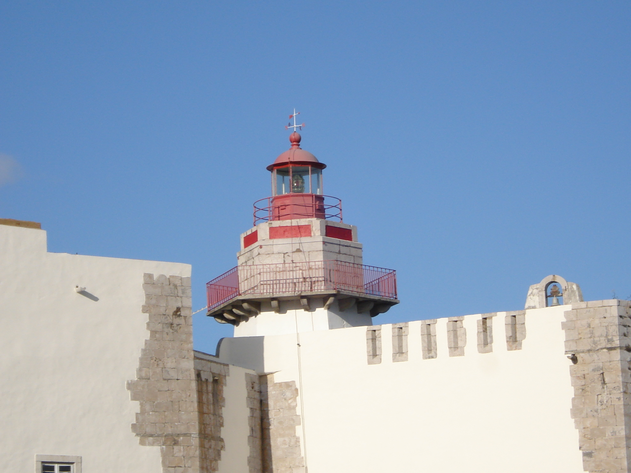 Farol